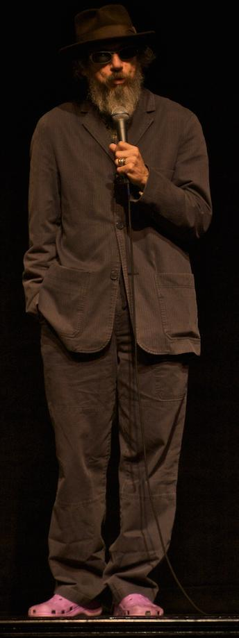 Toronto International Film Festival 2008 - Religulous